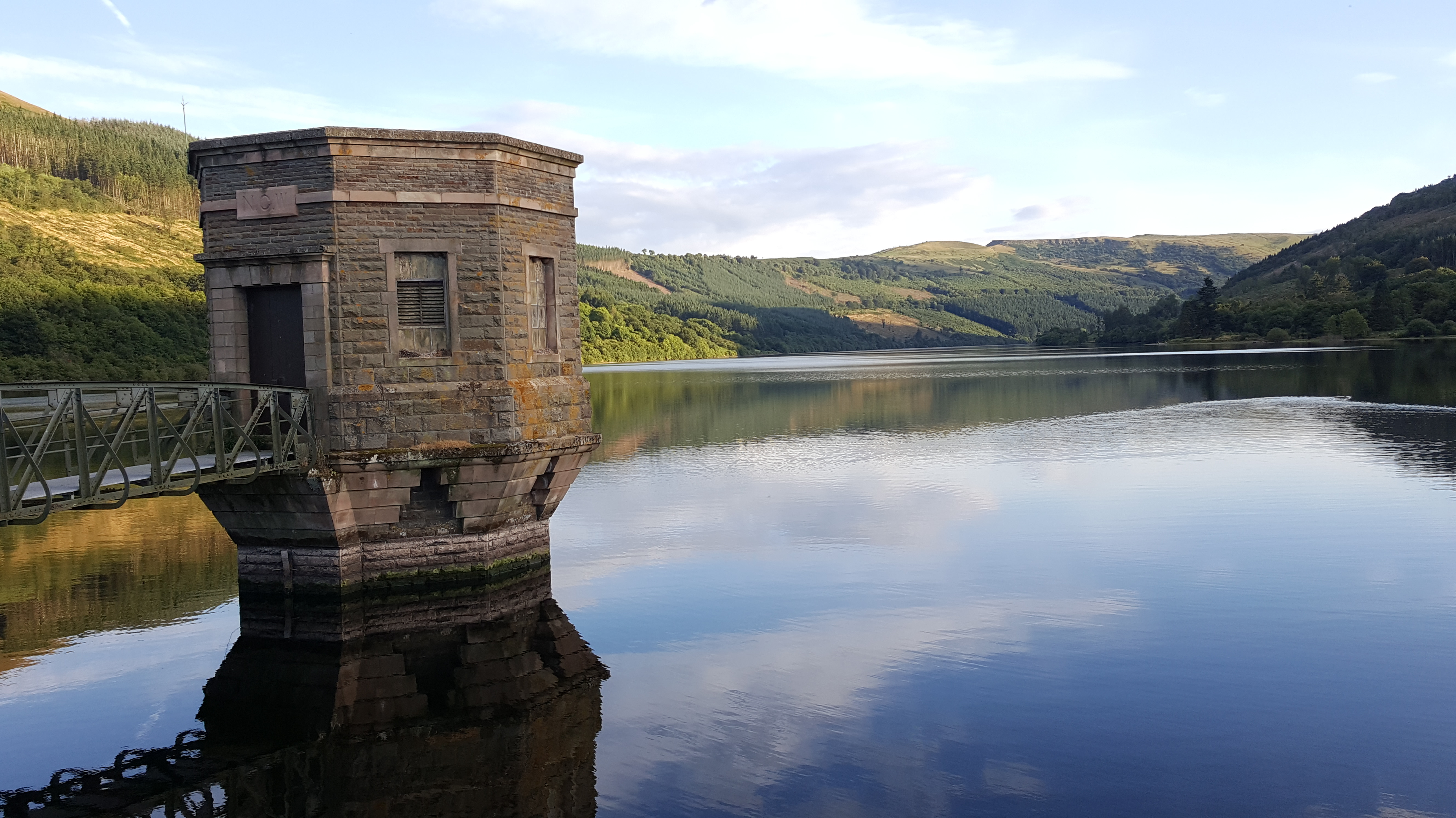 A view form Talybont Reservoir.